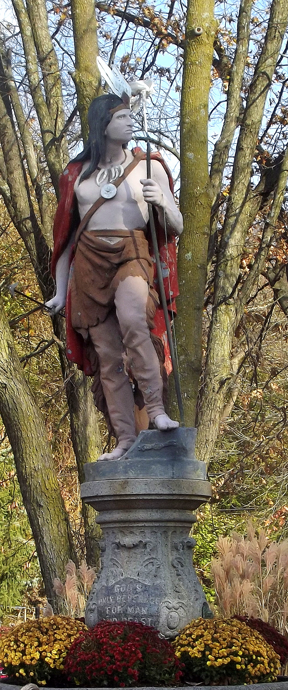 A close up of Chief Kisco in Mount Kisco, New York in late autumn.